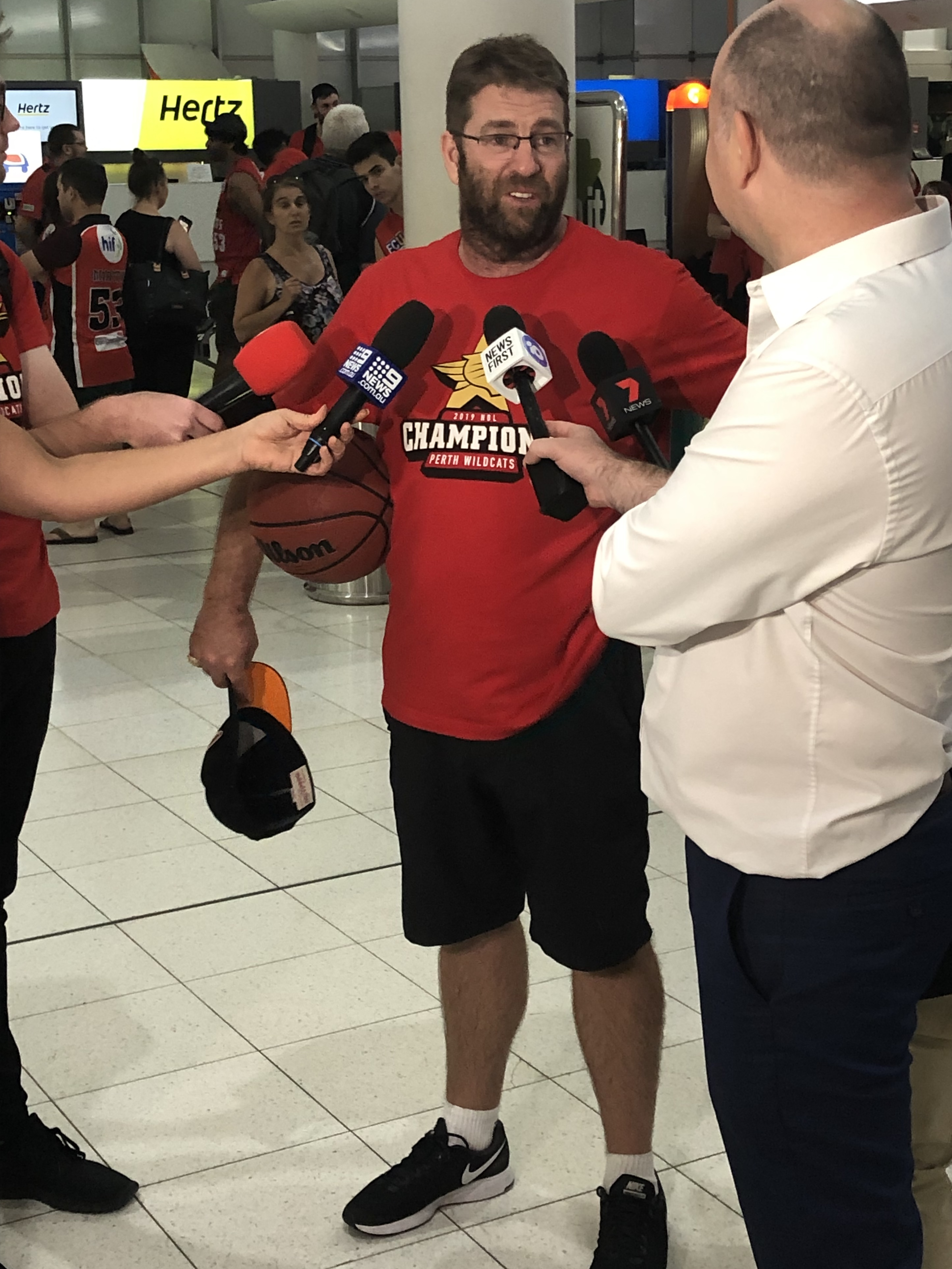 Trevor Gleeson, after guiding the Perth Wildcats to the NBL championship for the fourth time in six years